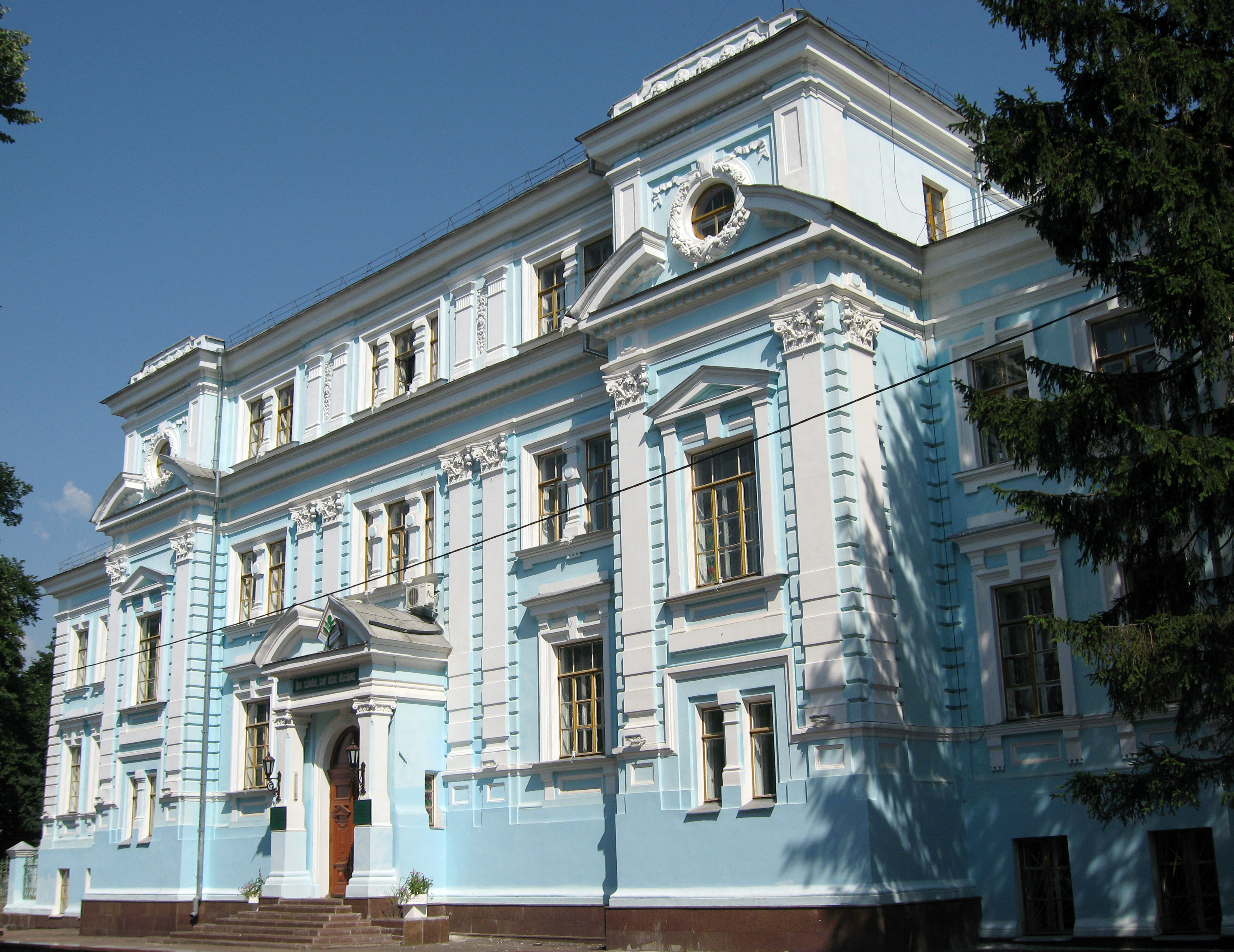 The National University of Agriculture in Zhytomyr (Ukrainian: Житомир